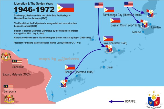 1946-1972 map of Sulu archipelago, Philippines